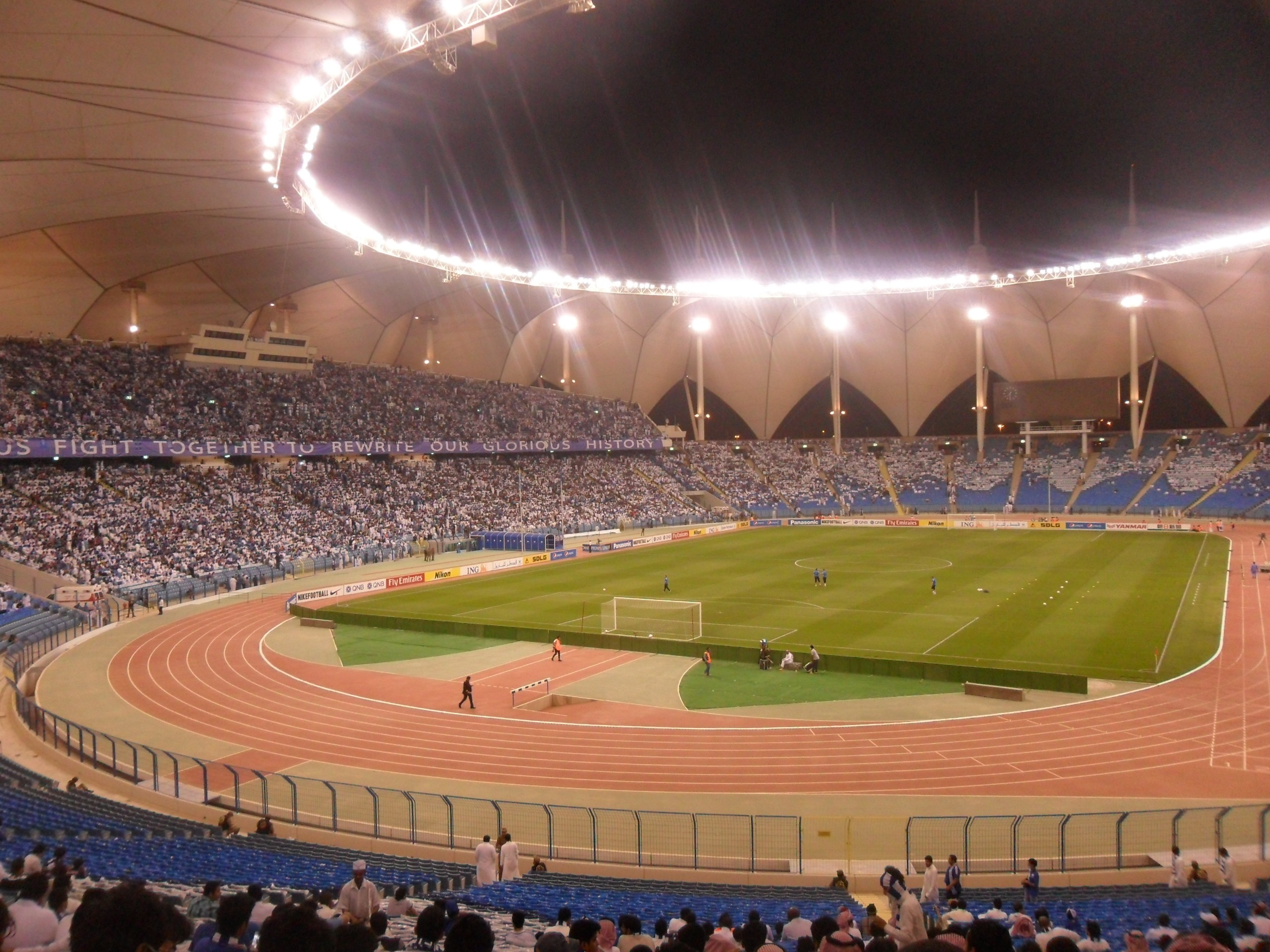 King Fahd International Stadium from the inside